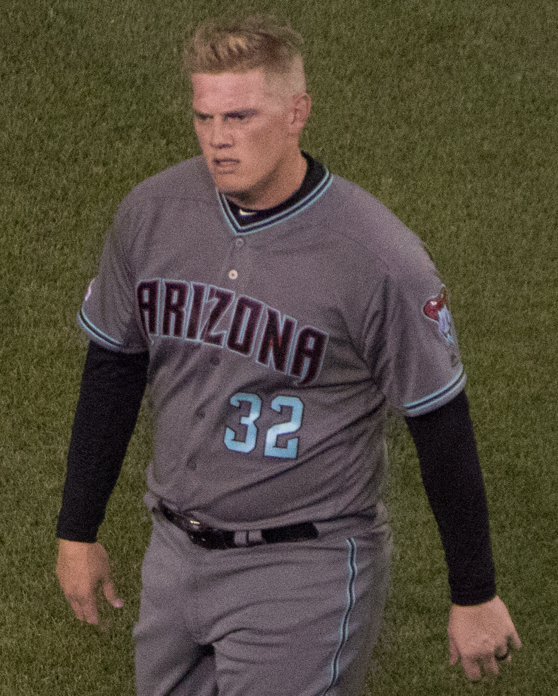 Kevin Cron of the Arizona Diamondbacks on the field at Nationals Park in 2019